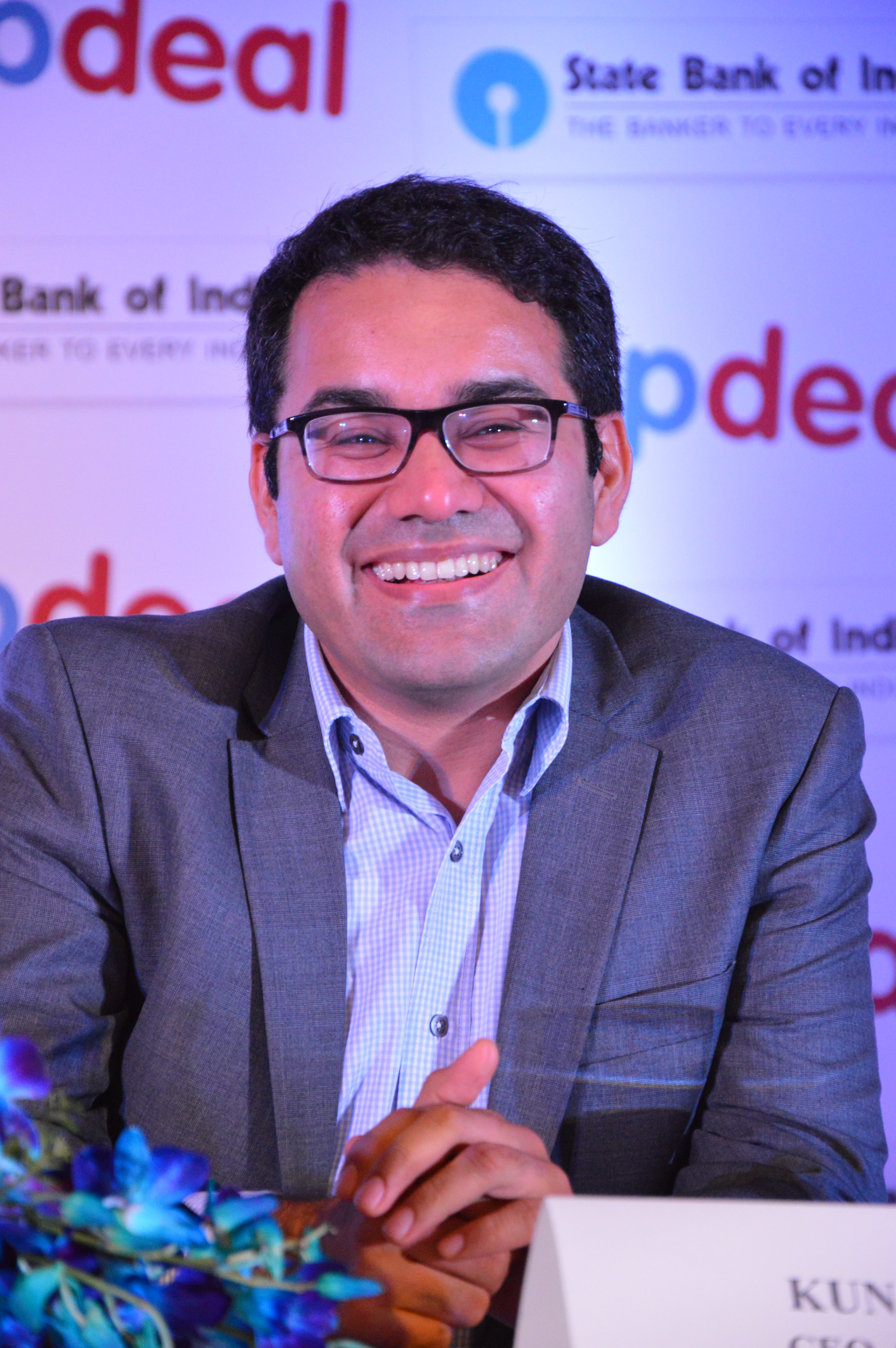 Kunal Bahl, B.Tech, MBA, is an Indian entrepreneur, co-founder and CEO of the 'Snapdeal' an e-commerce business in India.